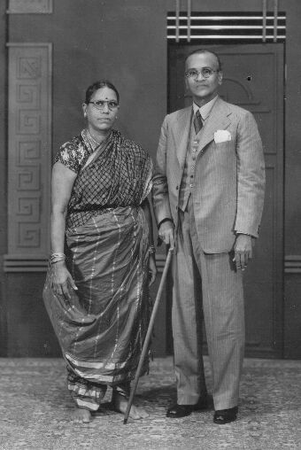 A Tamil Brahmin couple in Chennai (formerly Madras), India.